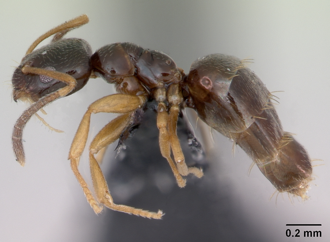 Profile view of ant Plagiolepis pygmaea specimen casent0173129.